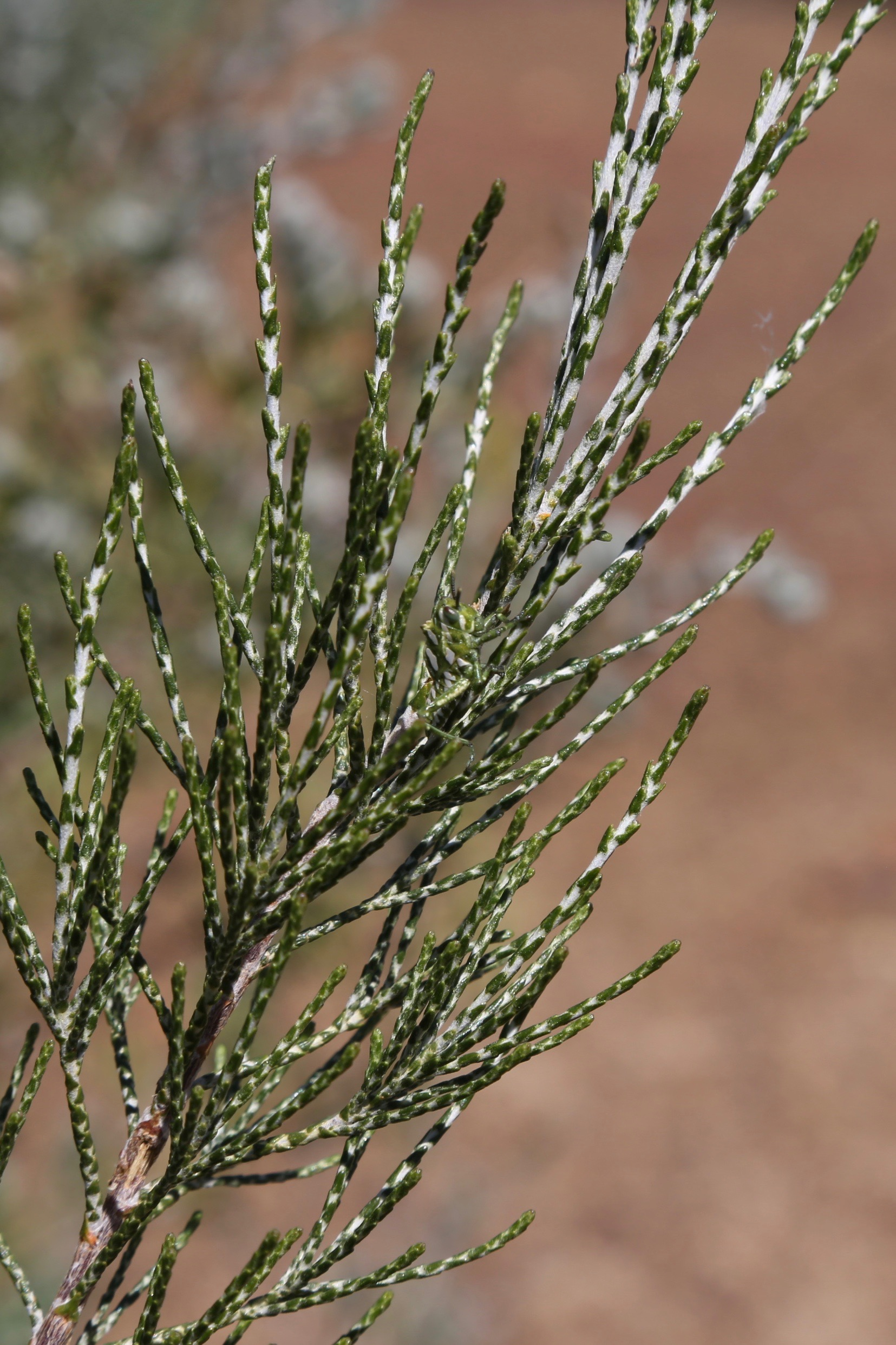 Cederberg Sandstone Fynbos – Cederberg Wilderness Area, Clanwilliam, Western Cape, South Africa